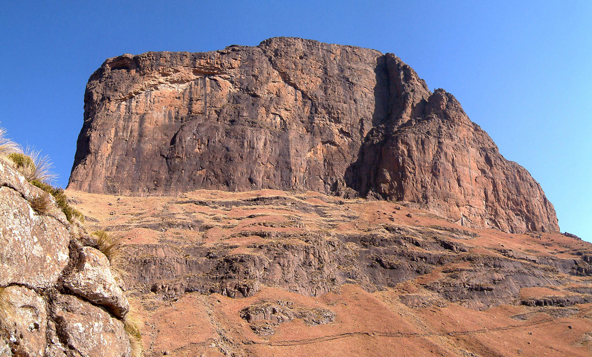 Sentinel Peak, Drakensberg (Royal Natal National Park, KwaZulu-Natal, South Africa)